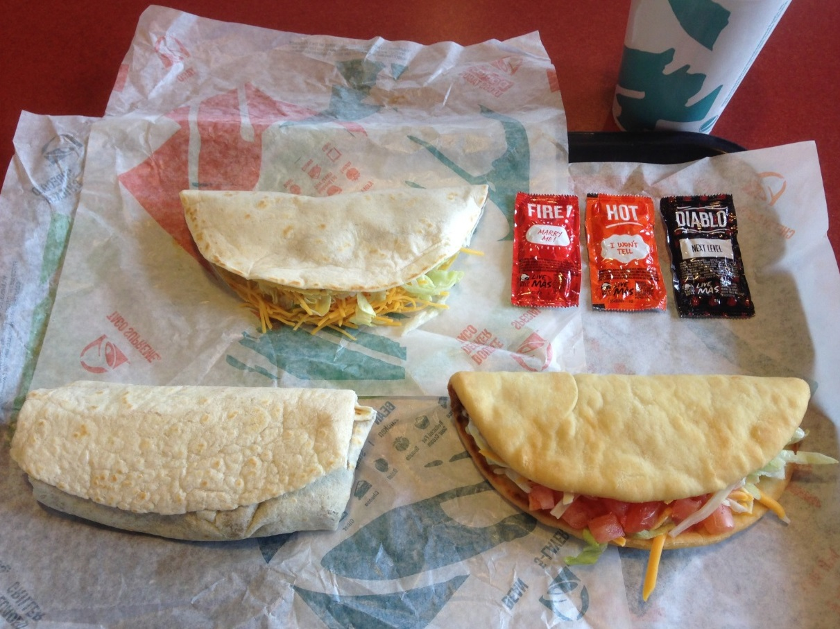 Several Taco Bell menu items in the U.S. Clockwise from lower right: chalupa supreme, combo burrito, double decker taco, packets of salsa, soft drink.